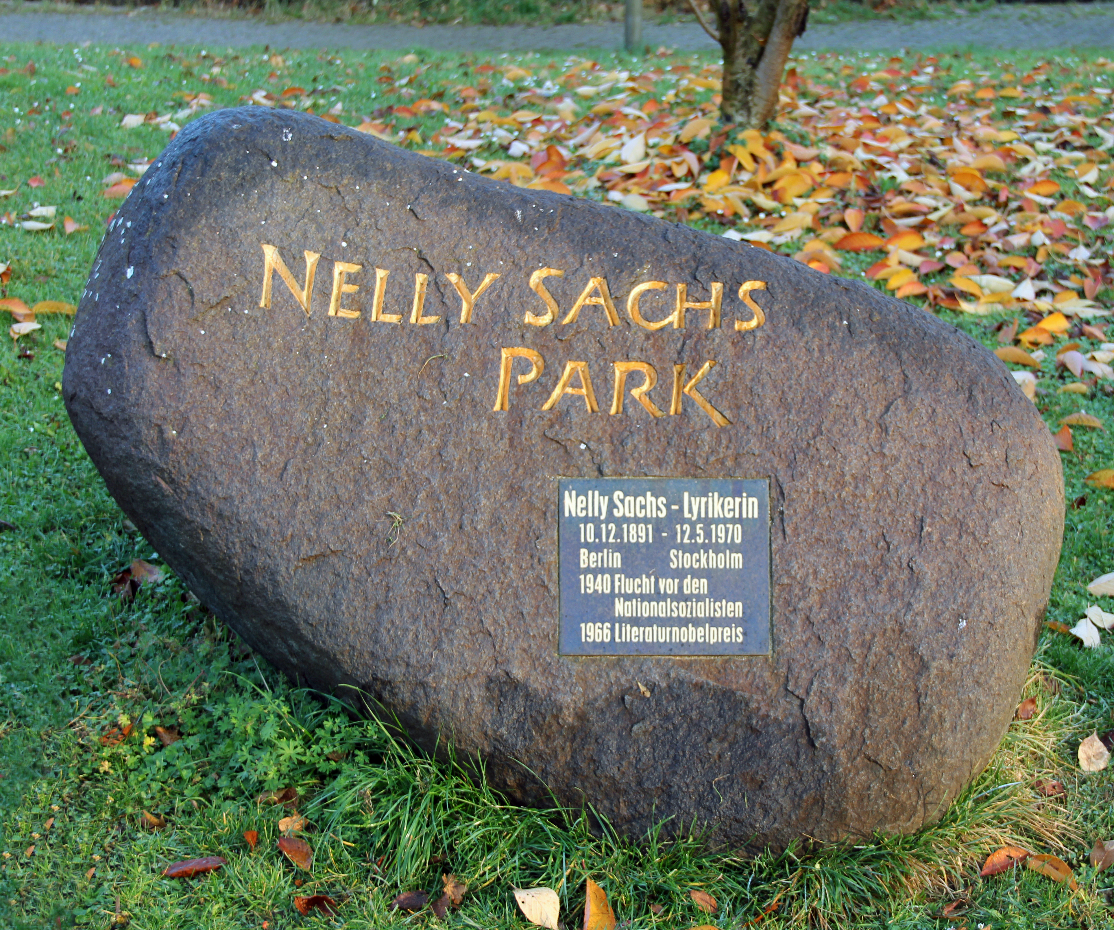 Memorial stone, Nelly Sachs, Nelly-Sachs-Park, Berlin-Schöneberg, Germany